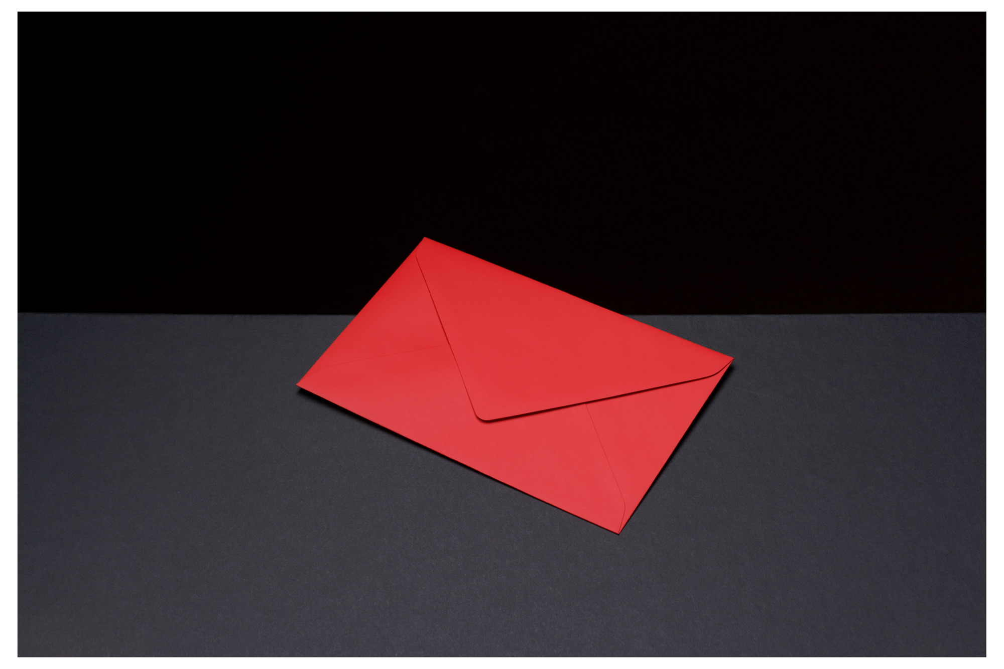 Envelope